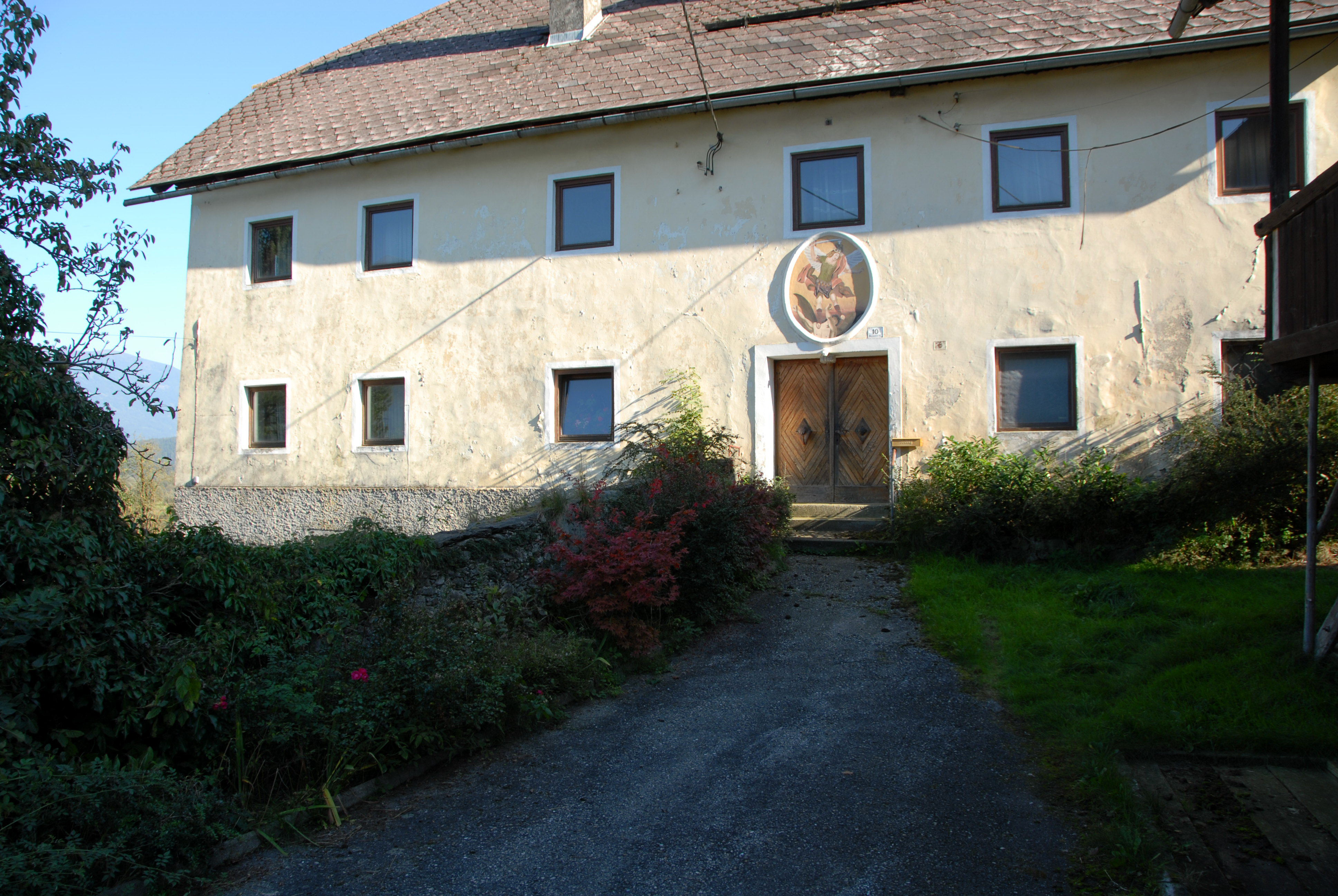 Mansion (with integrated parts of the old castle of the gender Rosenheim) at Rosenheim in the community of Baldramsdorf, Carinthia, Austria